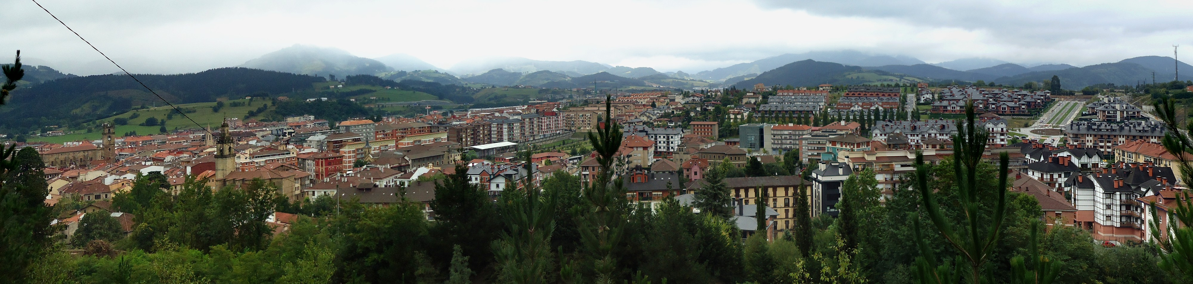 Town of Durango (Biscay, Basque Country)